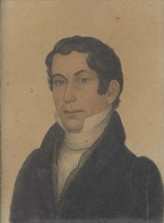 Painting of Timothy Fuller (1778-1835) the father of Margaret fuller